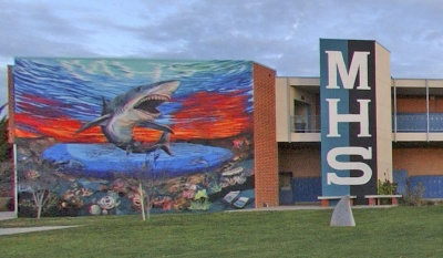 Malibu High School - Picture of MHS quad.